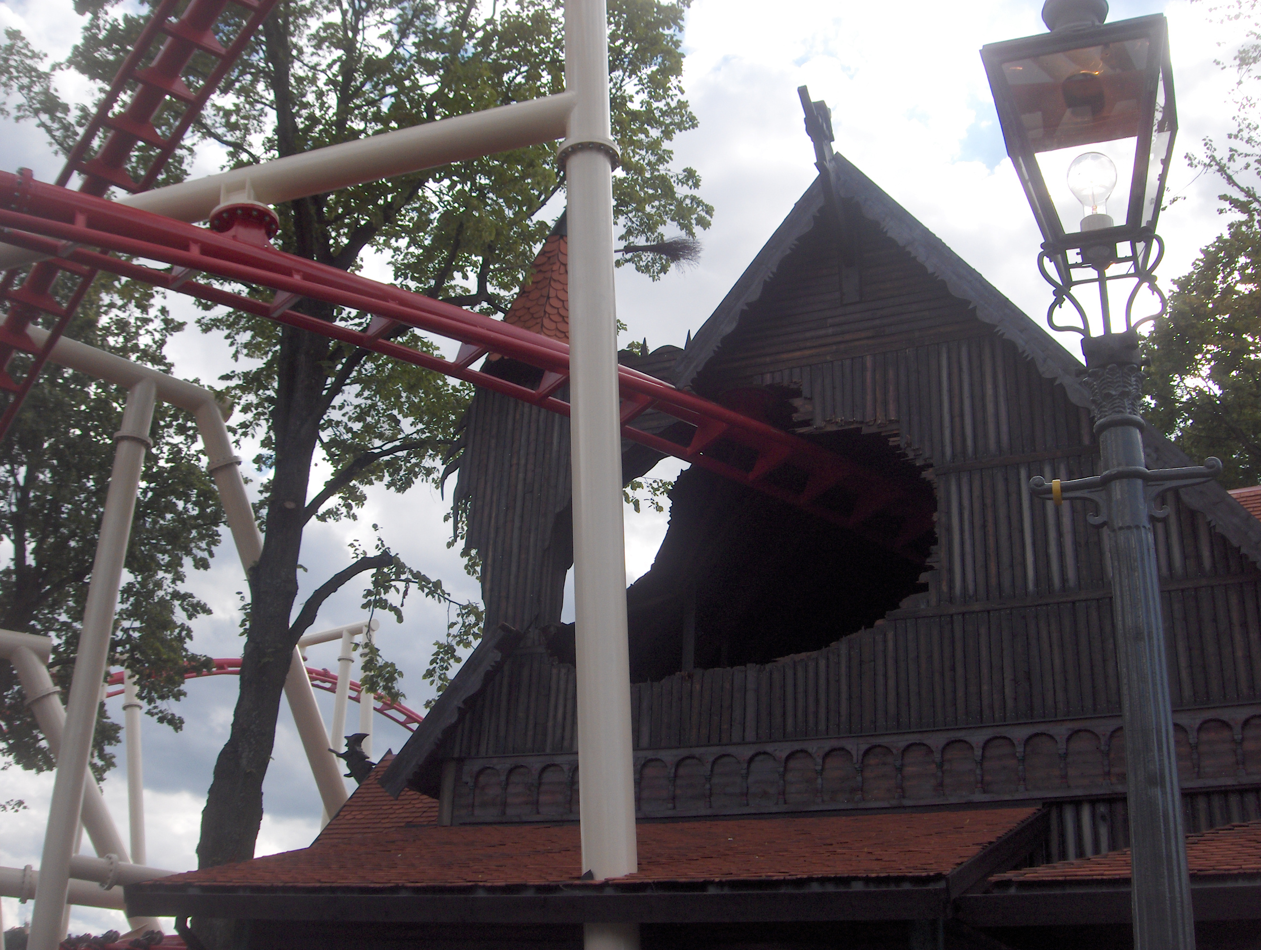 "Kvasten" at Gröna Lund in July 2007